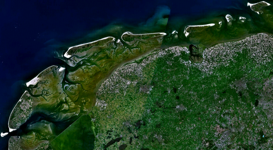 West Frisian Islands/Waddeneilanden. Satellite view. Extreme left: Noorderhaaks (islet: white sandbank) Extreme right: Borkum (German island)